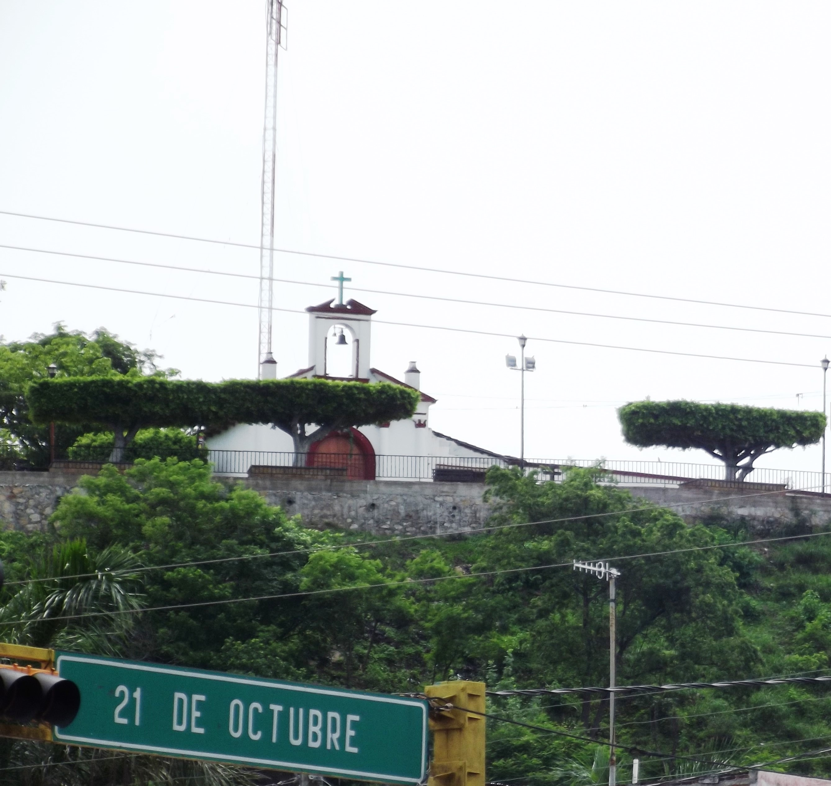 Fort independece or Church of San Gregorio.